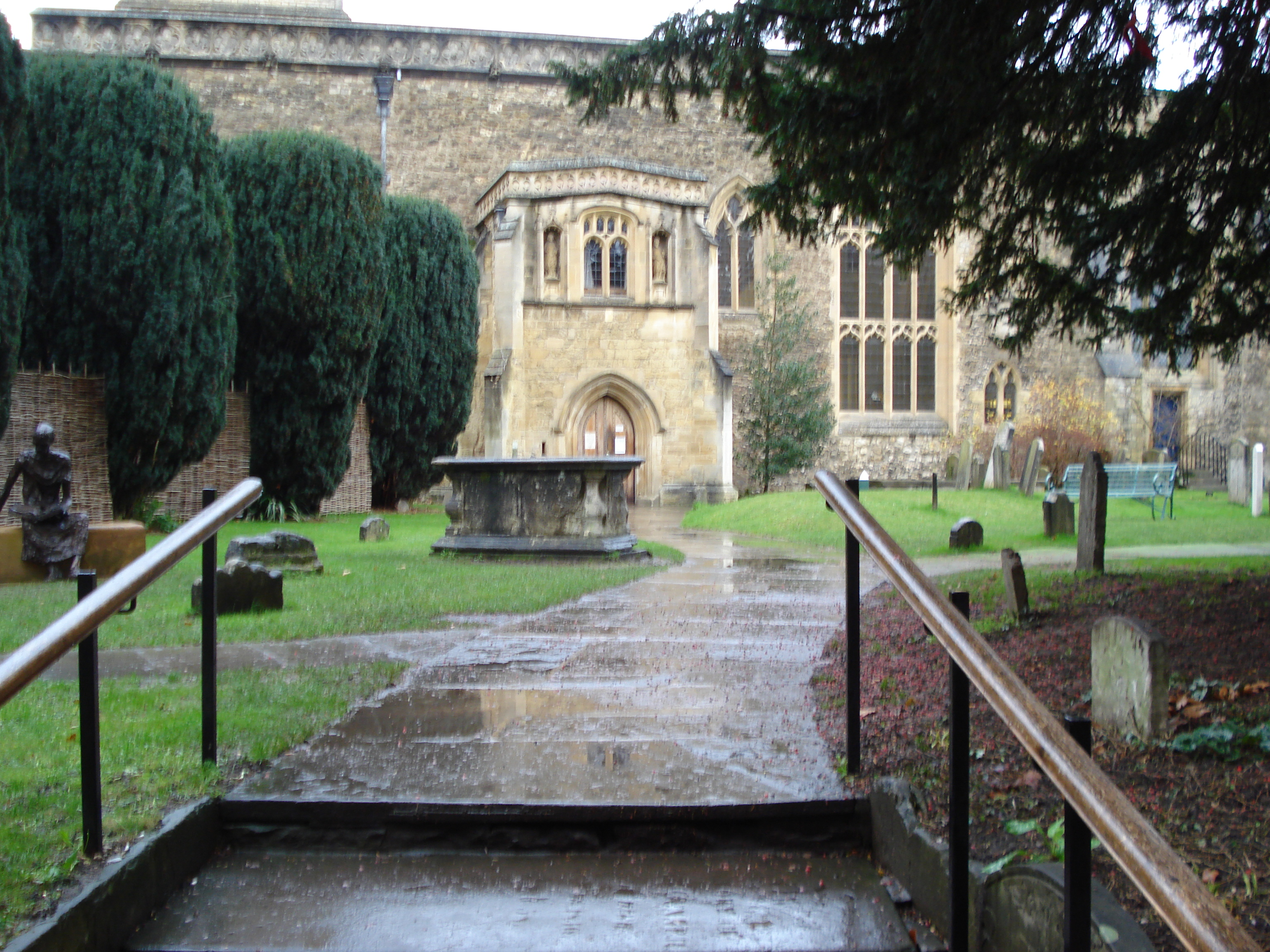 The medieval church St-Peter-in-the-East, St Edmund Hall, Oxford: view from the south